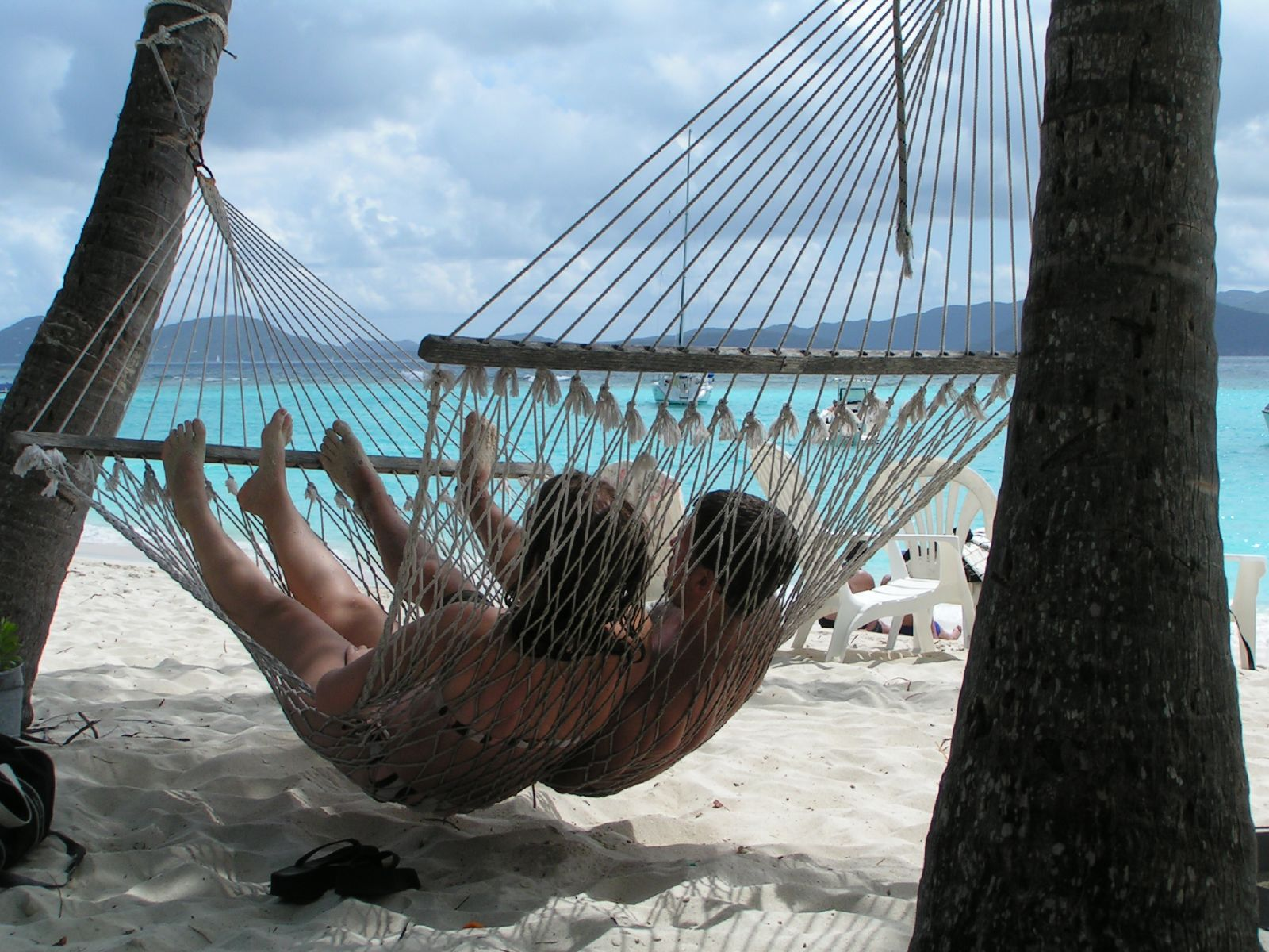 A couple in a Hammock.